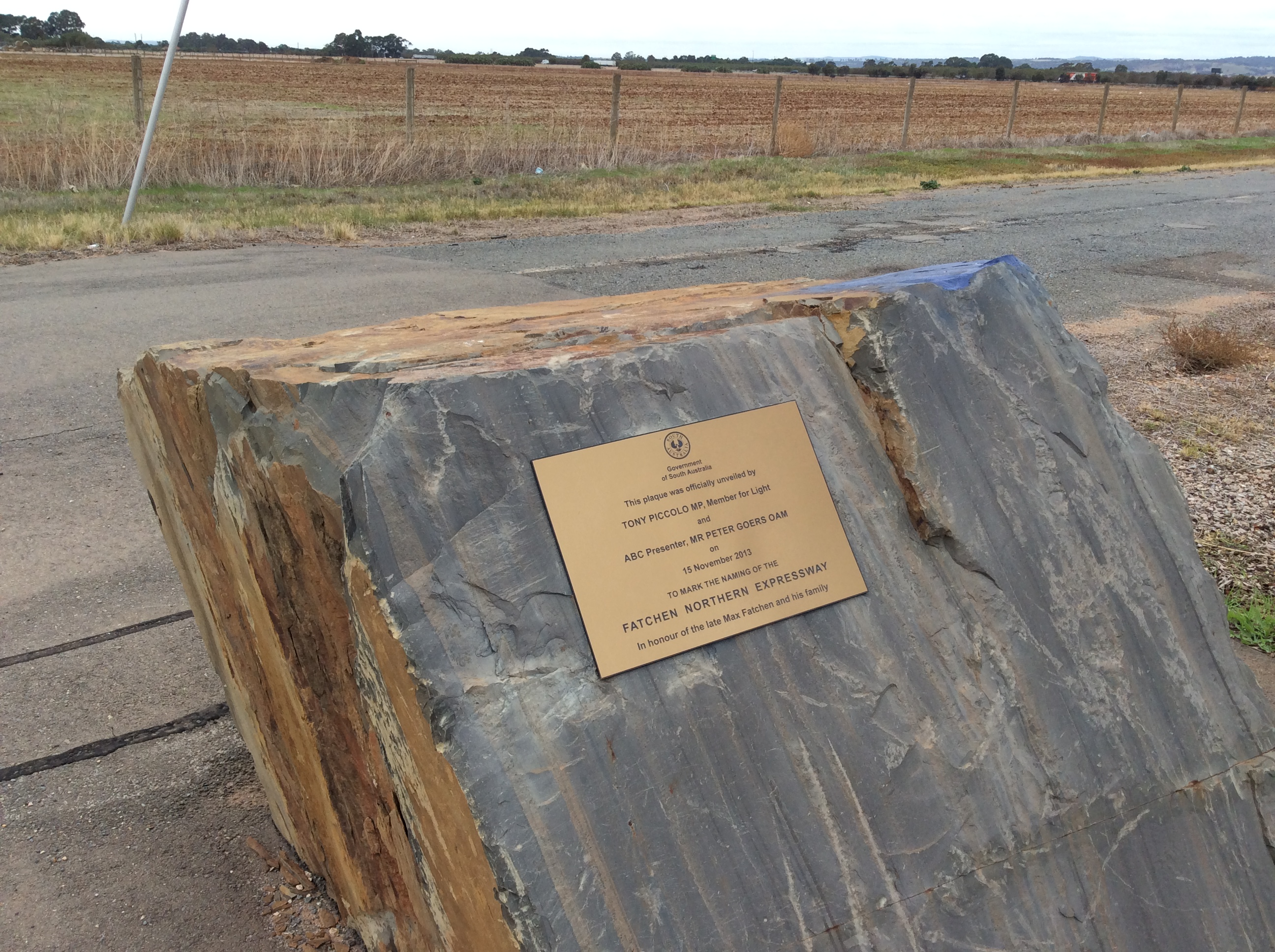 The Max Fatchen memorial stone off the Fatchen Expressway at Angle Vale, South Australia